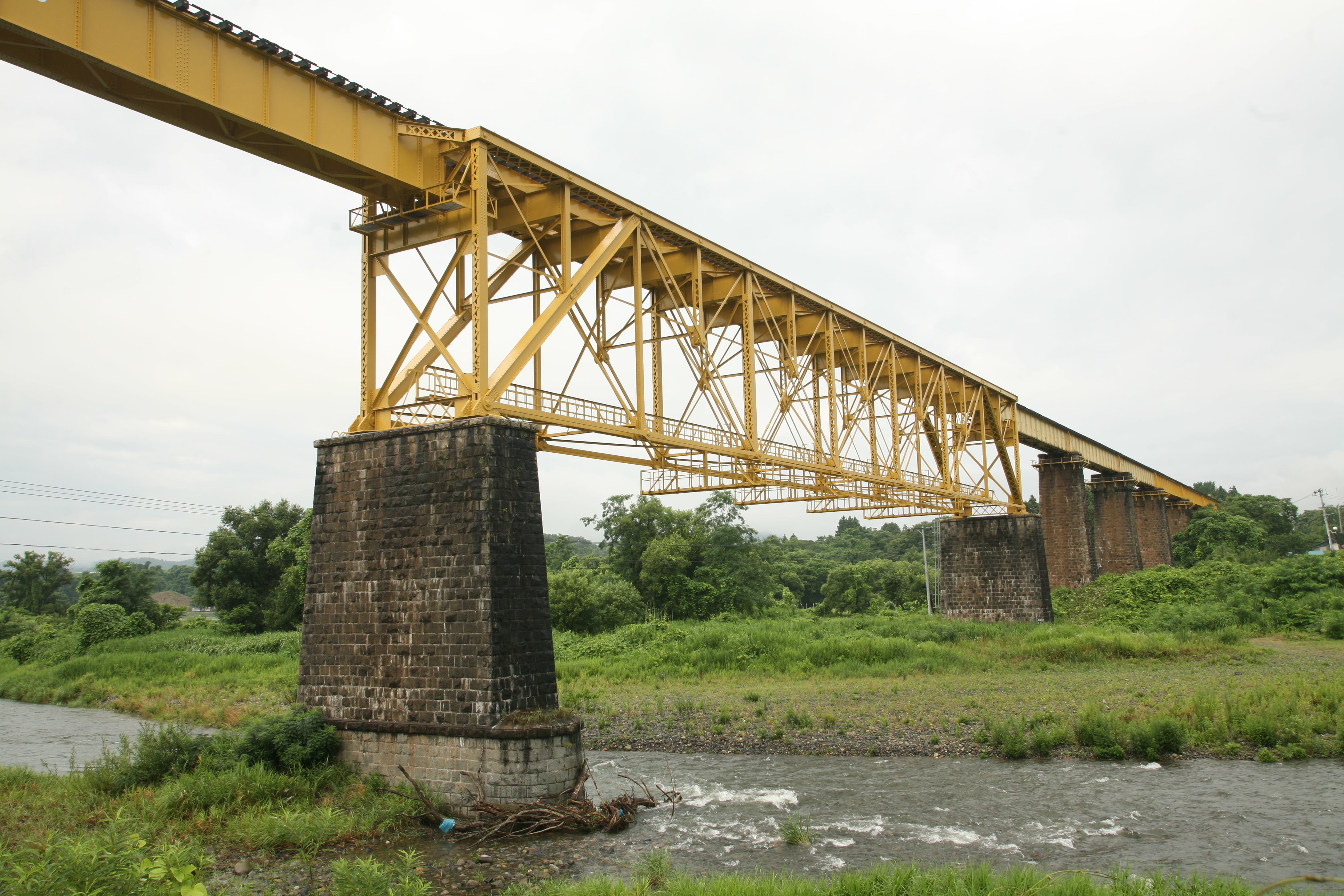 Ichinotogawa river bridge,JR-East Banetsu-saisen Line.Baltimore Truss Bridge,American Bridge,1908